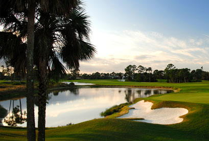 Golf Course in Port Saint Lucie